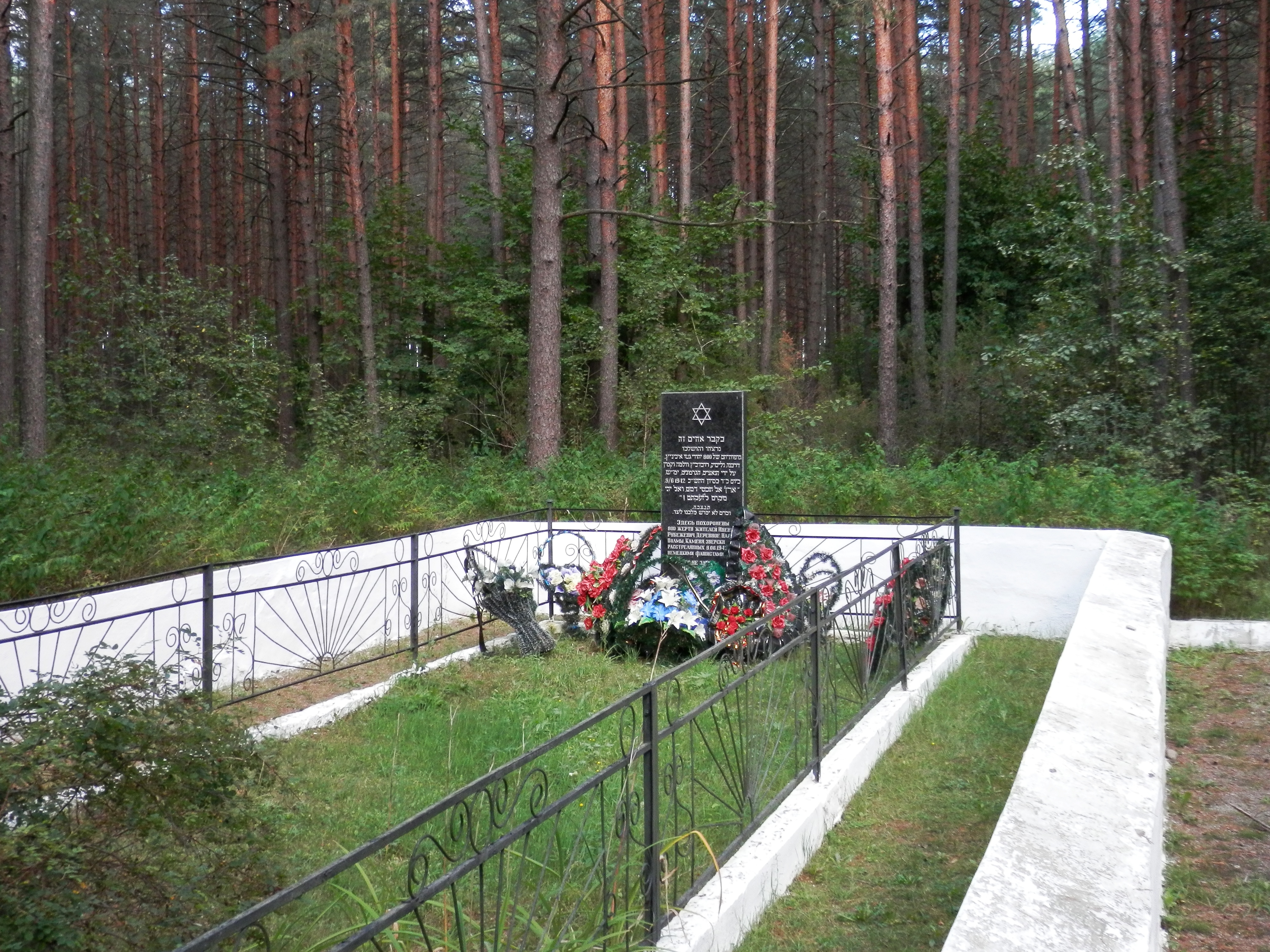 Grave of Jews from Ivianiec, shot in 1942